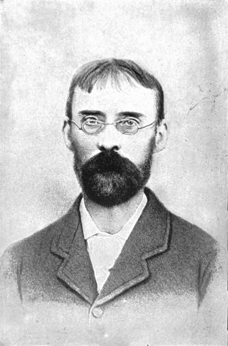 Amos Burn, chess player